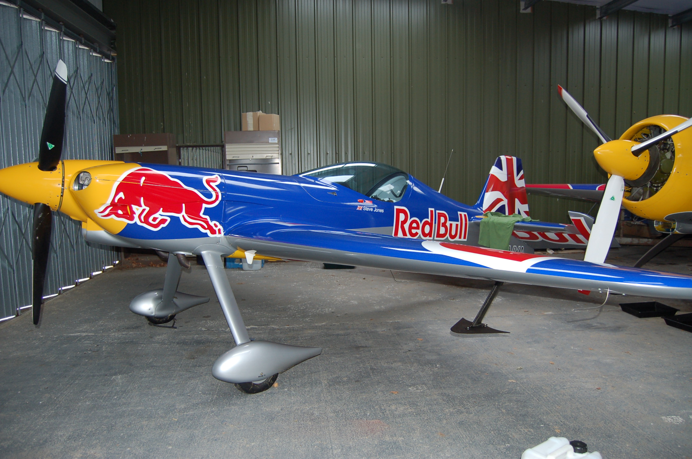 Xtreme Air XA-41 of The Flying Bulls Aerobatic Team at Oaksey Park,Wilts.,14/07/12.